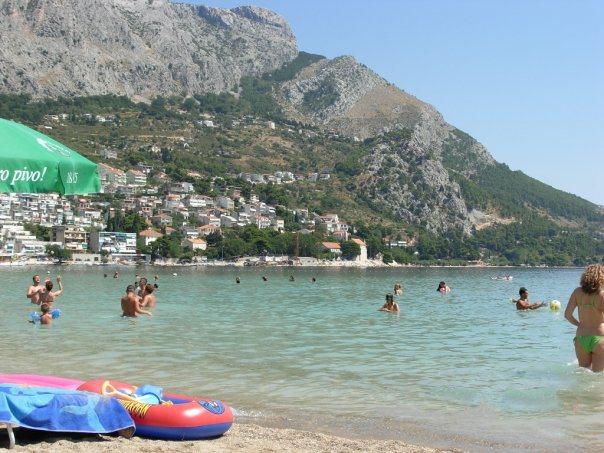 City of Omiš